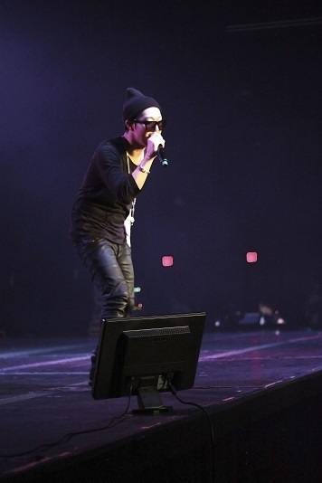 Haha, On stage, Running Man Bros US Tour 2014, Dallas